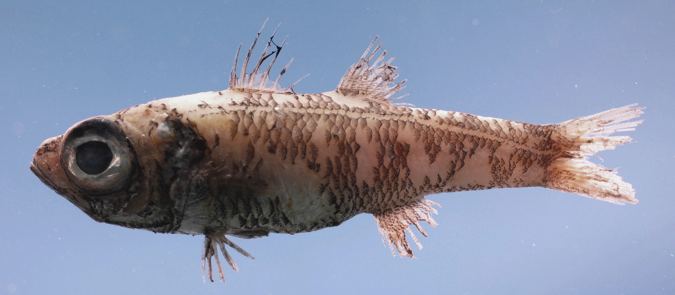 Epigonus denticulatus from the Gulf of Mexico